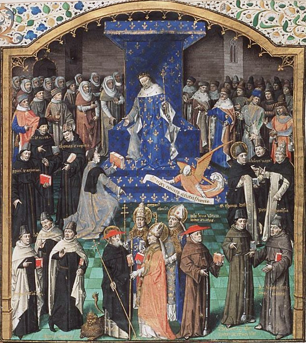 Raoul de Presles presents his translation to King Charles V, surrounded by Fathers of the Church, scholars and others Contents: Augustine, La Cité de Dieu (Vol. I). Translation from the Latin by Raoul de Presles Place of origin, date: Paris, Maïtre François (illuminator); c. 1475; 1478-1480 Material: Vellum, ff. 467, 440x300 (270x185) mm, 46 lines, littera hybrida, Binding: 18th-century brown leather (c. 1769) Decoration: 11 two-column miniatures (257/204x190/177 mm); 277 column miniatures (c. 120x80 mm); 11 illustrations in the margin (coats of arms); decorated initials with border decoration Provenance: made for Jacques d'Armagnac, duke of Nemours (1433-1477) and after his capture continued for Philippe de Commines (1447-1511), lord of Argenton (coats of arms in margin and on edge). Purchased in 1751 at the sale of J.-A. Crozat de Tugny (1696-1751) at Thiboust, Paris,by L.-J. Gaignat of Paris; purchased in 1769 at the Gaignat sale at G.F. De Bure le Jeune, Paris (cat. 1 Febr., no. 242) by Gerard Meerman (1722-1771) of Rotterdam, later The Hague; by descent to his son Johan Meerman (1753-1815); acquired between 1816 and 1824 by Willem H.J vanWestreenen van Tiellandt (1783-1848) of The Hague; by legacy to the kingdom of the Netherlands Annotation: Vol. II now: Nantes, BM, fr. 8